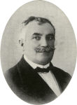 Portrait of Eleftherios Kazanis